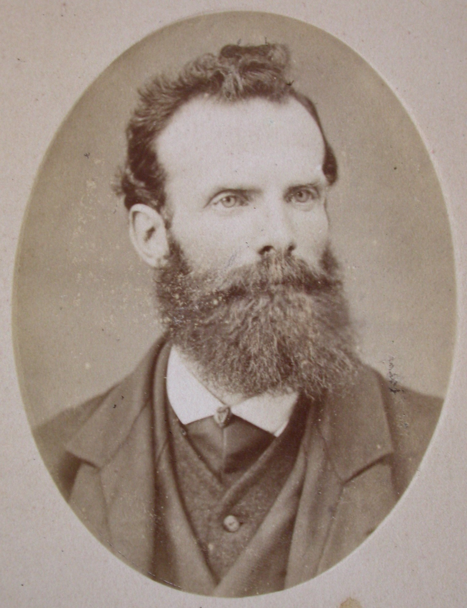 Portrait of Charles Guilfoyle Doran